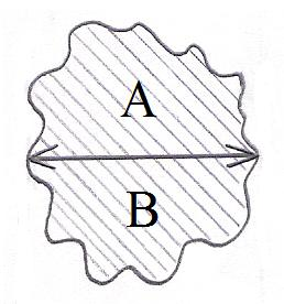 dsequivalent5